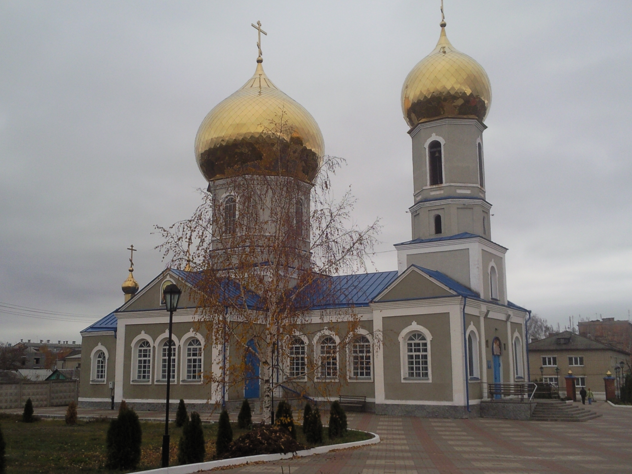 The Assumption Church in Chernyanka